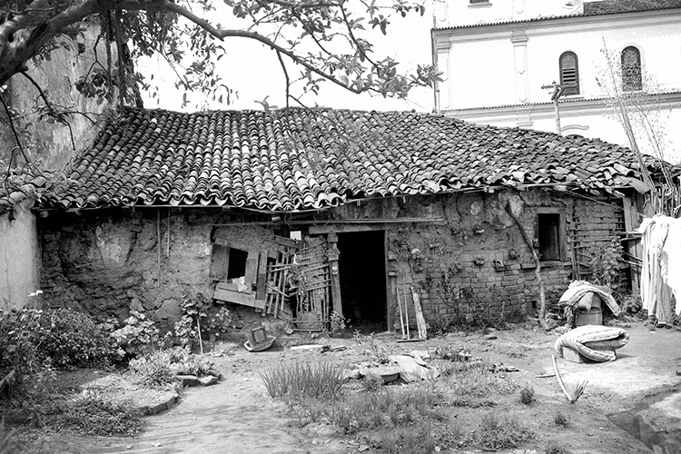 Casa da Parnaíba: vista dos fundos, antes do restauro. Foto: Germano (Herman Hugo Graeser) 1955 Arquivo Fotográfico da 9ª SR-IPHAN-SP